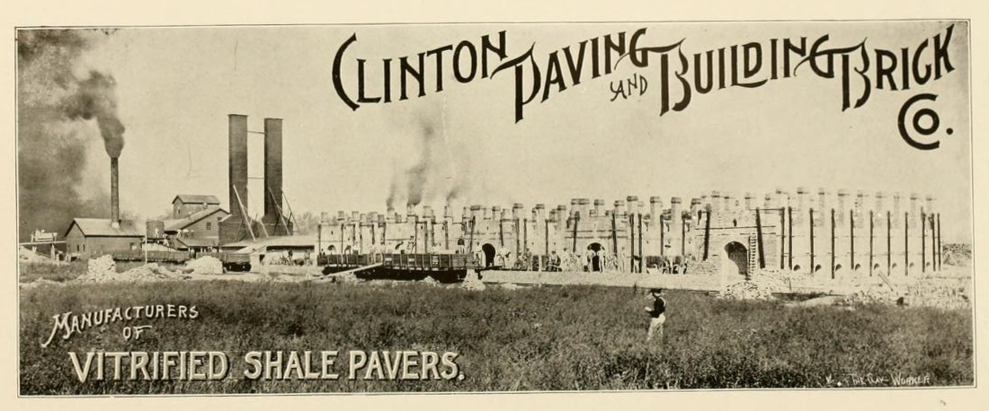 Photograph of the Clinton Paving and Building Brick Company in Clinton, Vermillion County, Indiana.